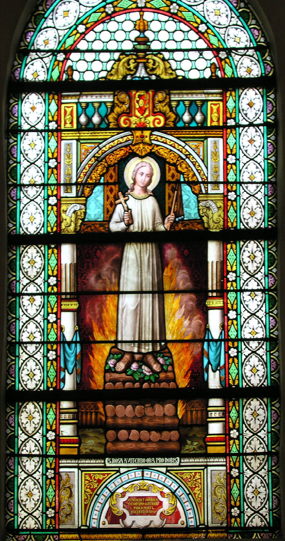 Hombourg church window from 1892 showing Holy Rose of Viterbe